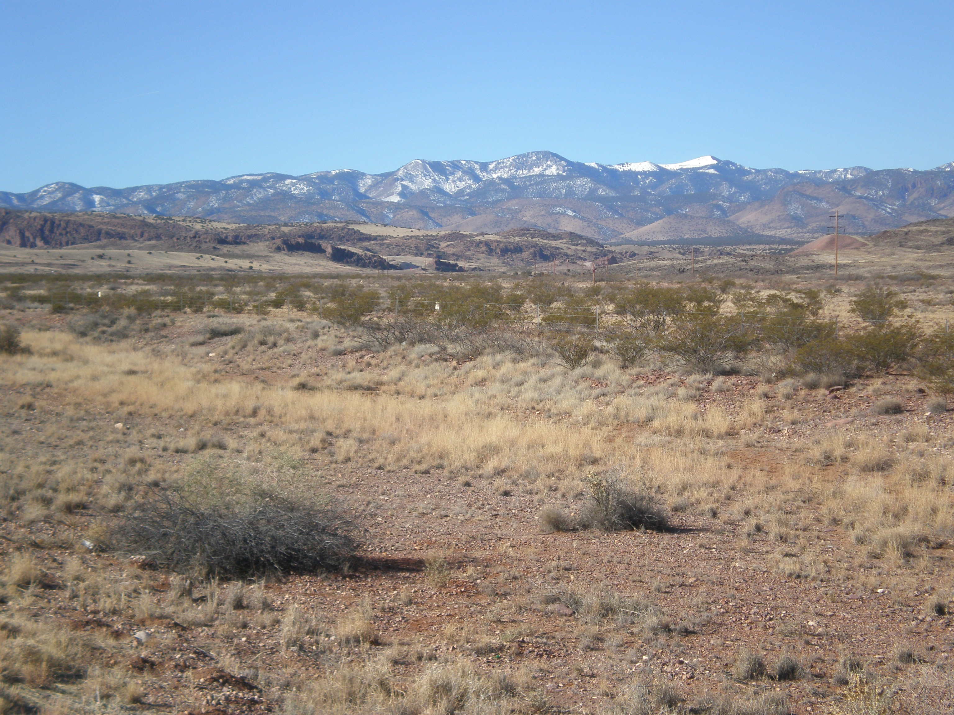 Looking west, from the north side US Route 60, at the Magdalena Mountains west of Socorro, NM. South Baldy is the snowcapped mountain peak seen in the distance to right center. Photo taken approximately 6 miles west of I-25 exit 150.